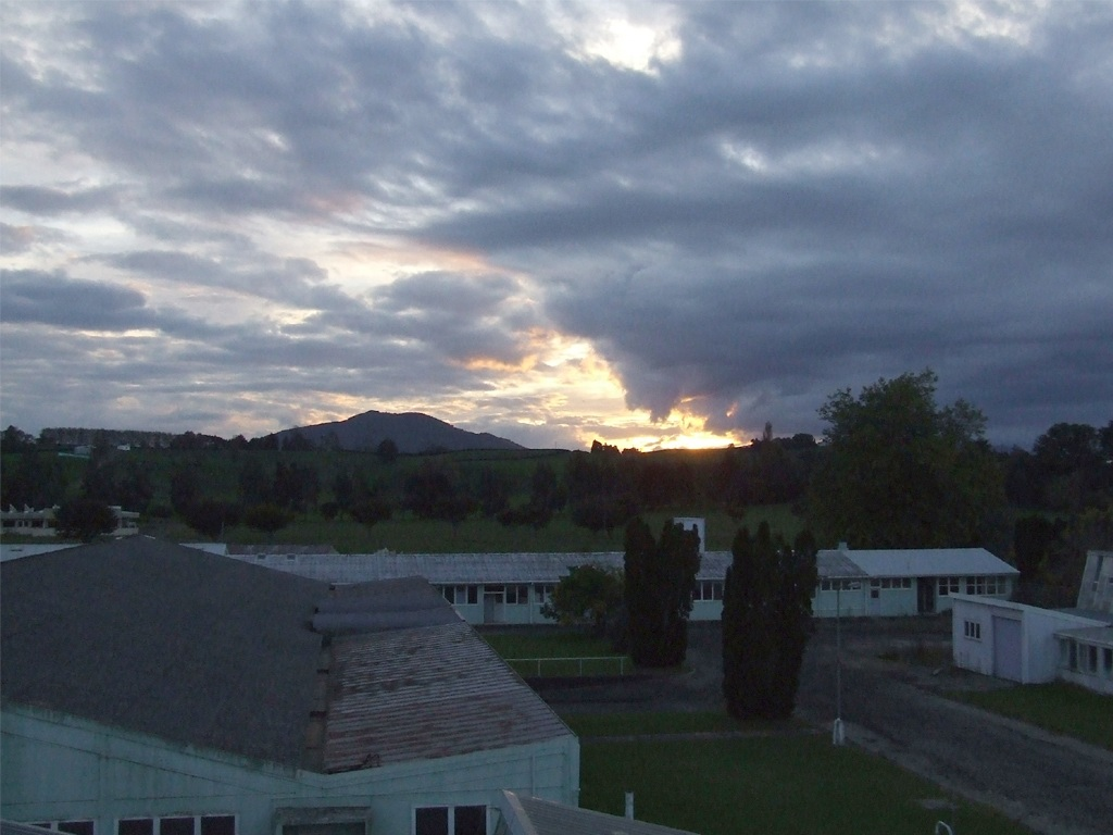 Sunset over Tokanui Hospital and Mount Kakepuku, Waikato, New Zealand. This picture was taken from the top of the old coal heating plant.